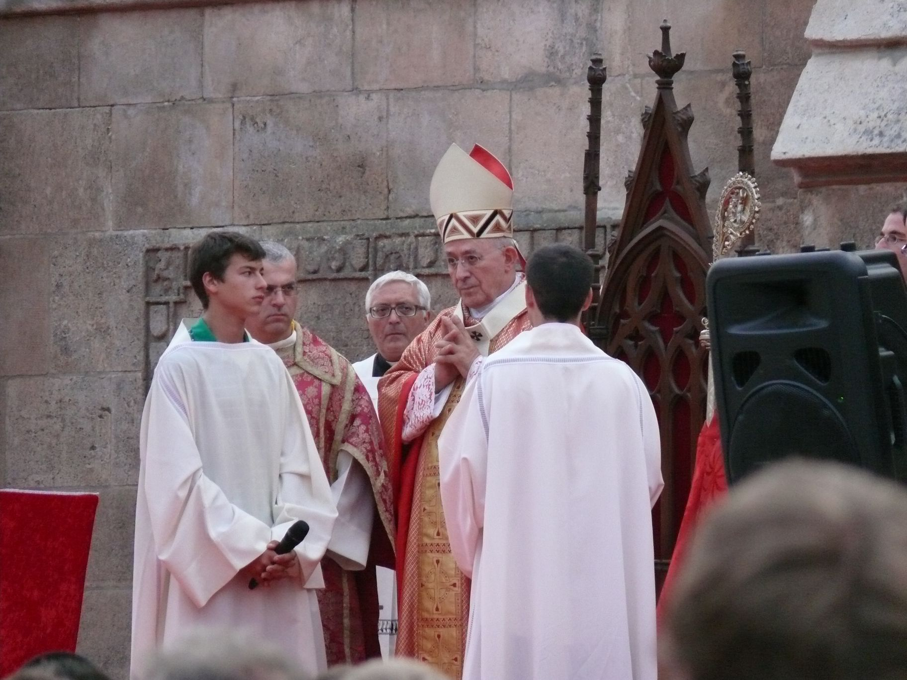 Mass in Burgos (Spain) for the World Youth Day 2011.